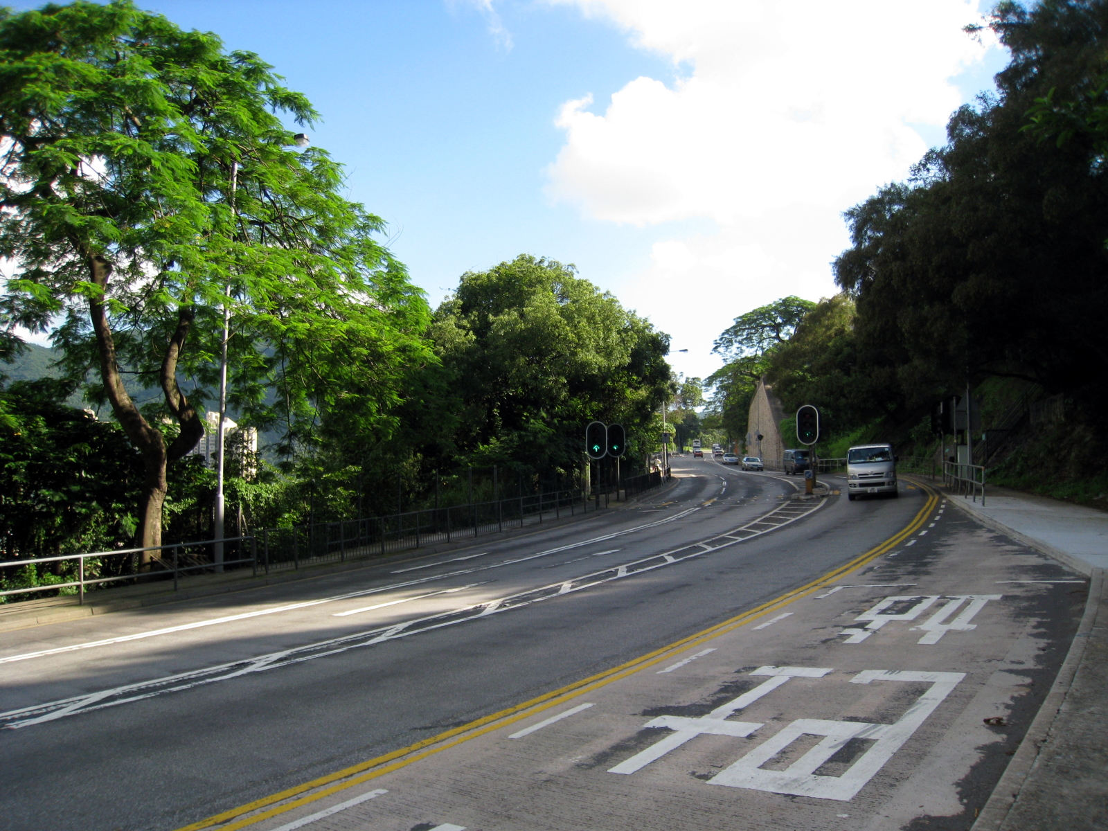 HK Tai Po Road Shatin Height Section